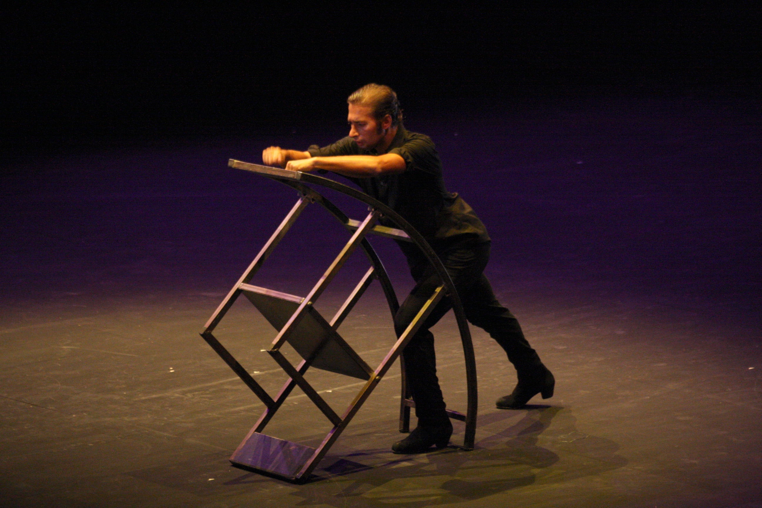 TORINODANZA ARENA, Israel Galván's flamenco choreography and dances